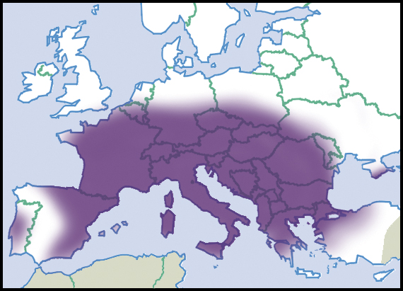 Pyramidula pusilla Gittenberger & Bank, 1996. Distribution in Europe, scientific state of knowledge of 2012. Source description in English. Light colour indicated rare occurrences or regions where the species could eventually be expected to occur. Dark colour indicated relatively reliable occurrences, as well as regions where the species was expected to occur, and where the species was not known to be extremely rare. Dark colour indications were not necessarily based on published records. Species summary in AnimalBase